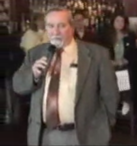 Don Gorman